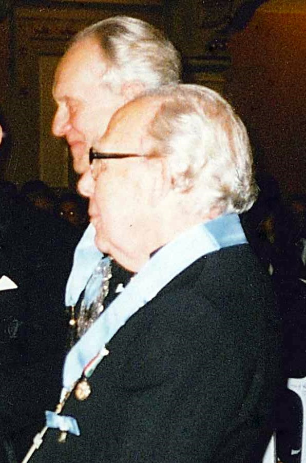 Per-Olov Ahrén (1926-2004), Swedish clergyman and bishop of Lund 1980-1992; seen here during a ceremony in Sankt Knuts Gille i Lund (the Guild od Saint Canute in Lund). The man in the background is Carl-Gustaf Andrén, the guild's alderman at the time.